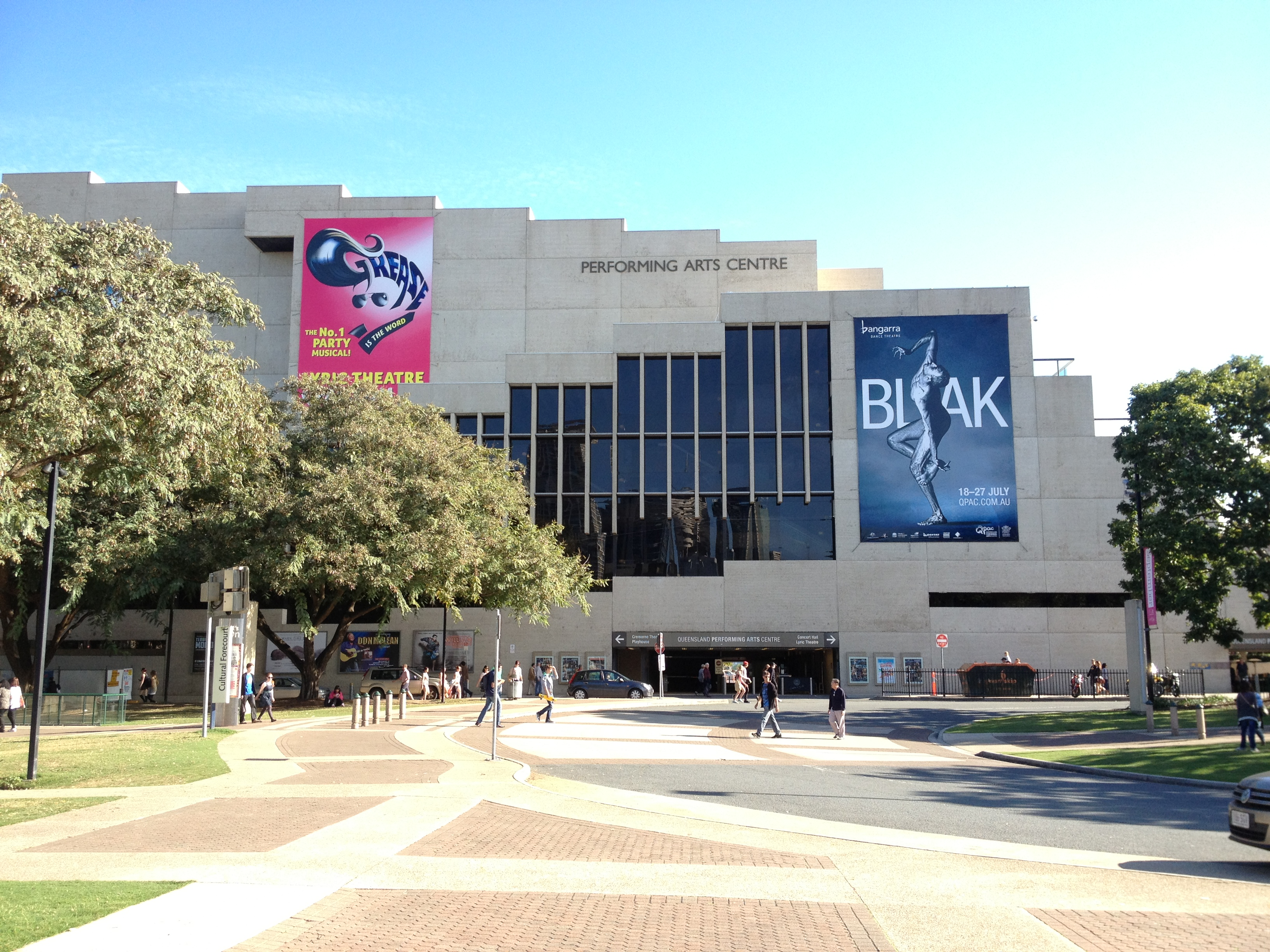 Queensland Performing Arts Centre, 07.2013